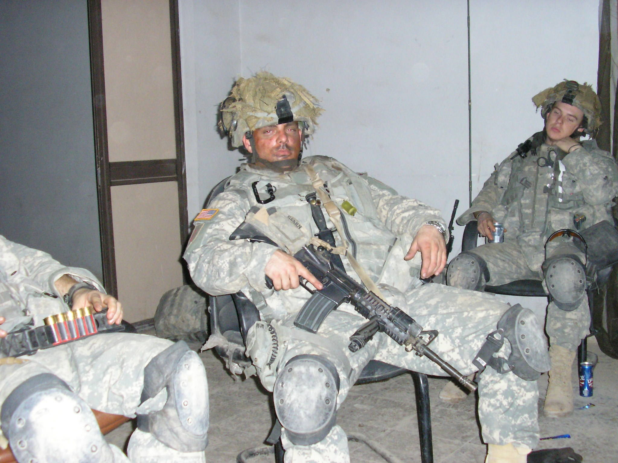 The mortar platoon (transformed into motor infantry) of Task Force 1st Battalion, 18th Infantry Regiment (TF 1-18 IN) occupying a hasty platoon strong point in a contested area of Baghdad, Iraq, April 2007 in support of Operation Iraqi Freedom 06-08. 1LT Joshua S. Hearn, the Executive Officer of 1st Battalion, 77th Armor Regiment, in center of photo.